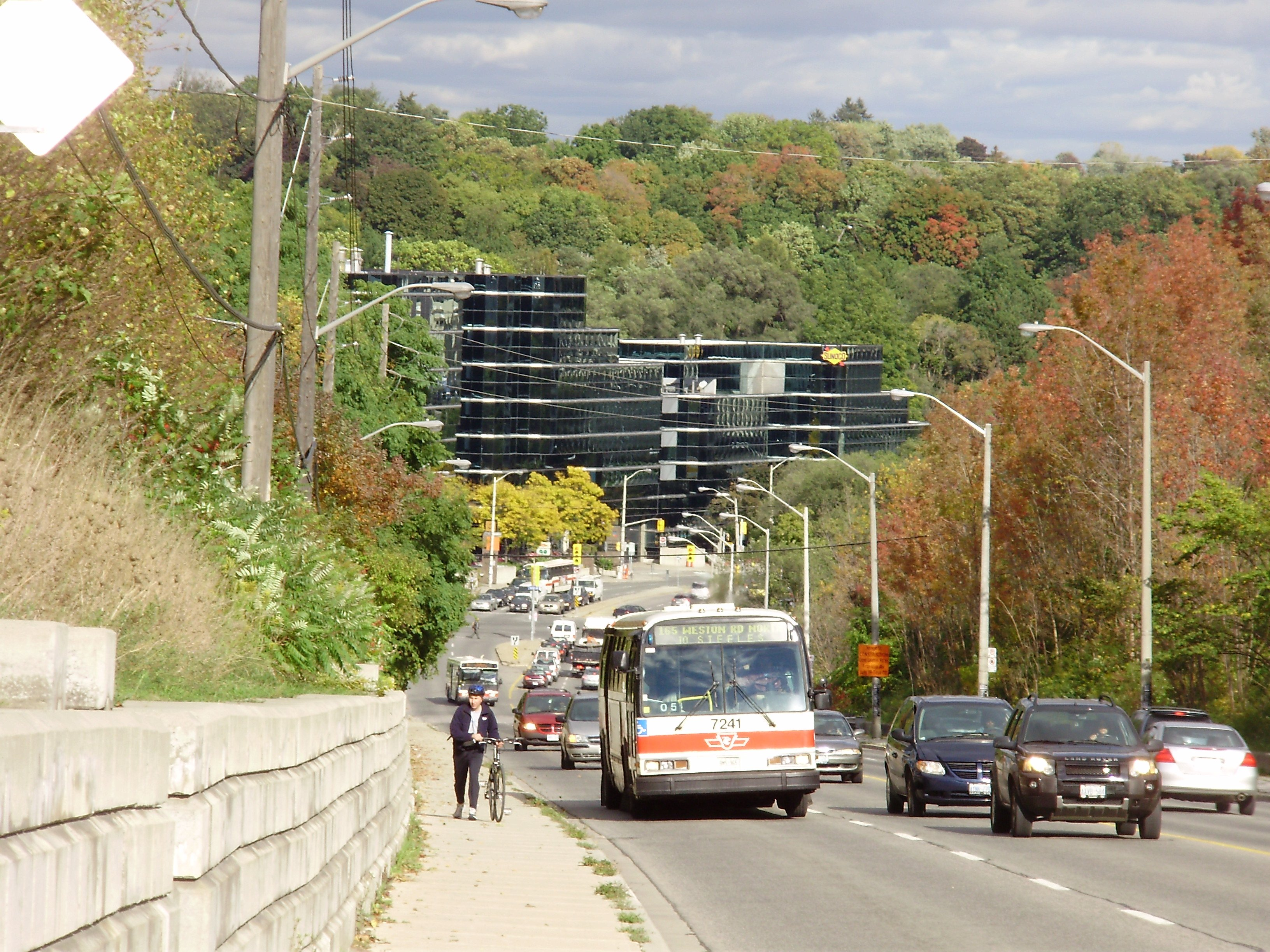 Looking east along Wilson Avenue as it enters the neighbourhood of Hoggs Hollow, specifically the intersection of Yonge Street and Wilson Avenue/York Mills Road, in Toronto, Ontario, Canada. The black building is the York Mills Centre.